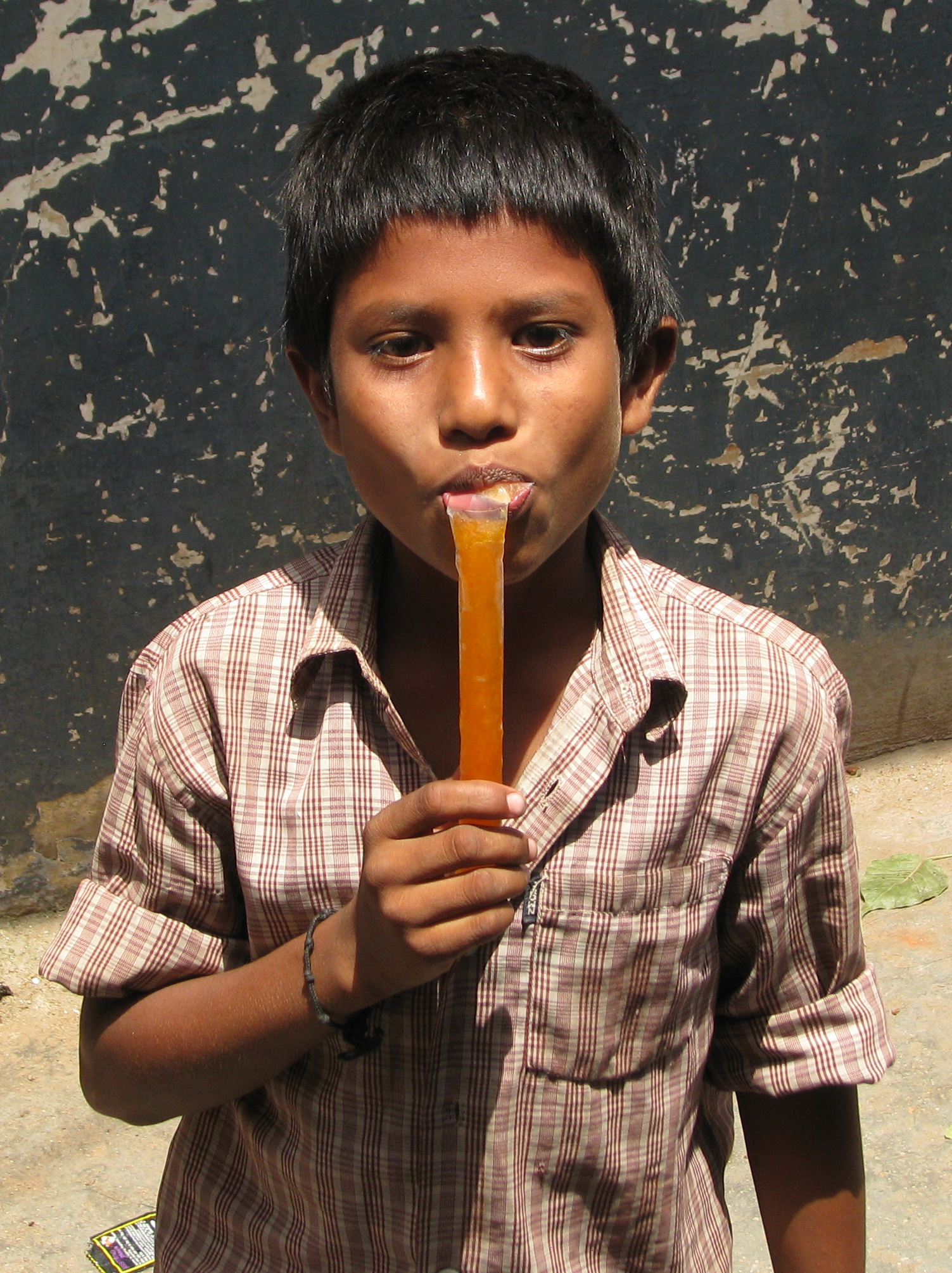 A boy in Vellore, Tamil Nadu, India, eating a freezie